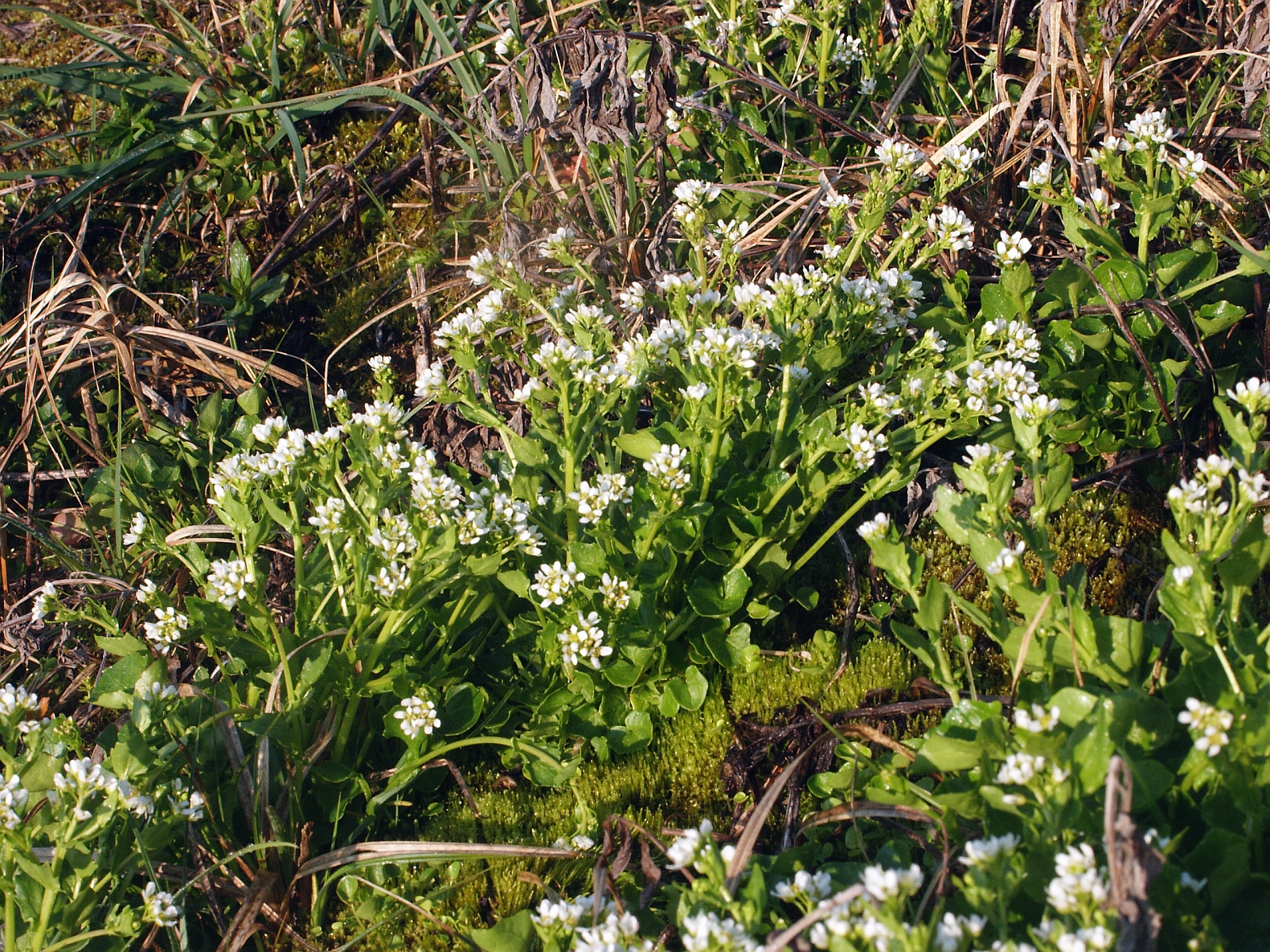 Cochlearia pyrenaica, Hohenloher Land, Germany